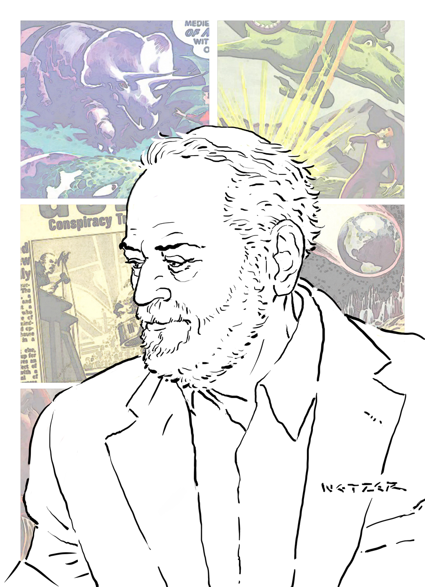 Portrait of former DC Comics artist and Production Manager, Jack Adler, from Michael Netzer's Portraits of the Creators Sketchbook.